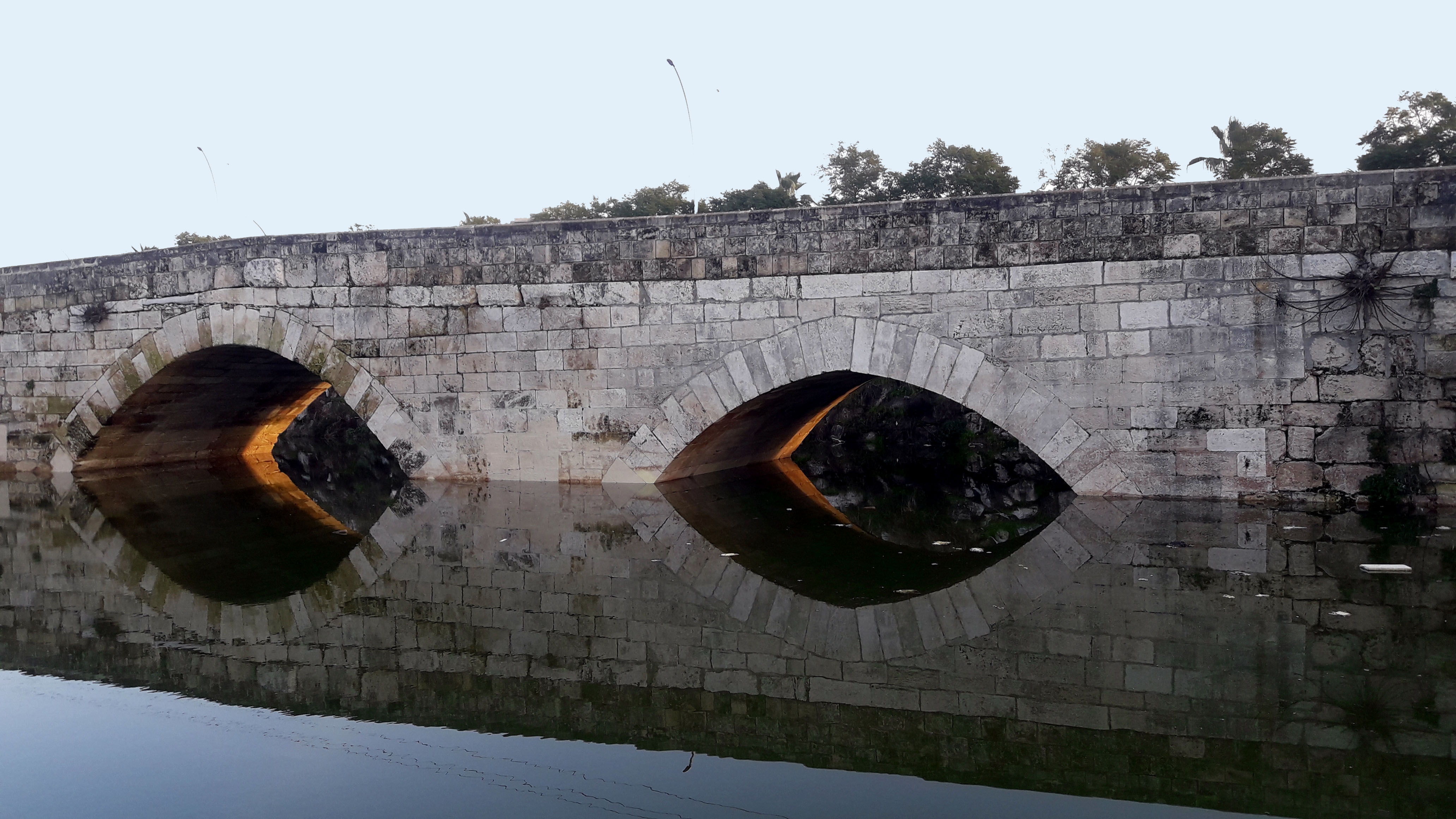 Baç Bridge in Tarsus, Mersin